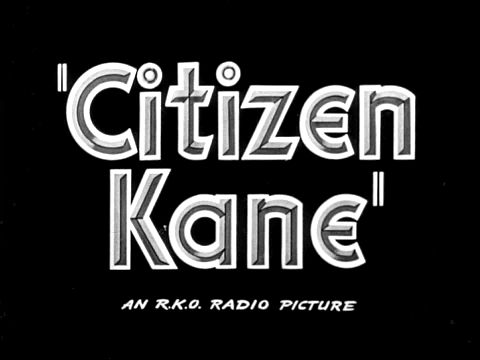 Screenshot of the intertitle from the Citizen Kane trailer